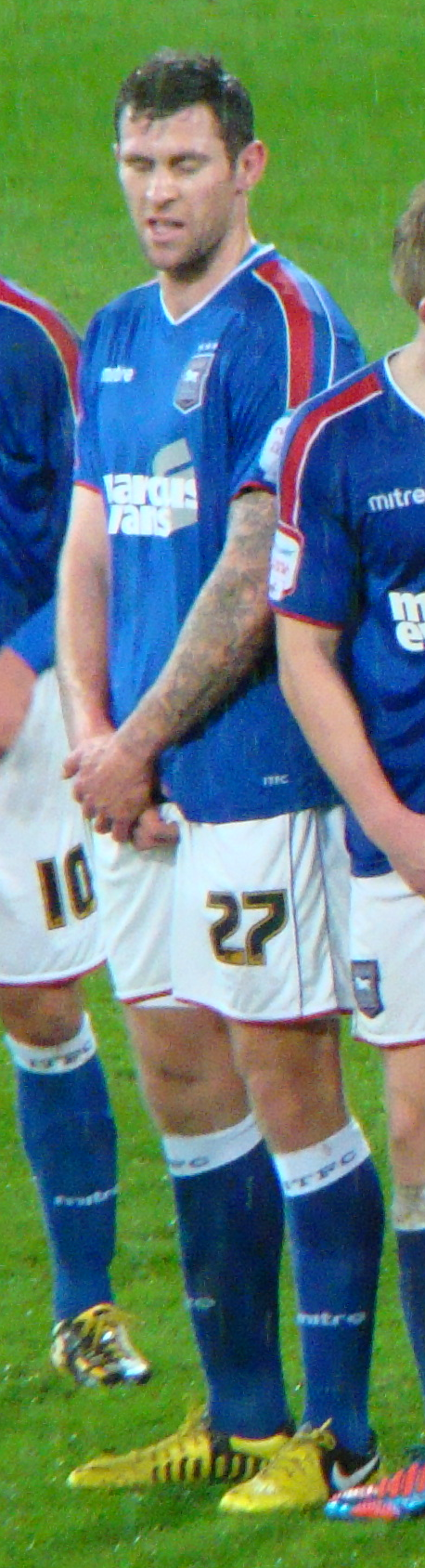 Daryl Murphy. Image cropped from original at flickr.